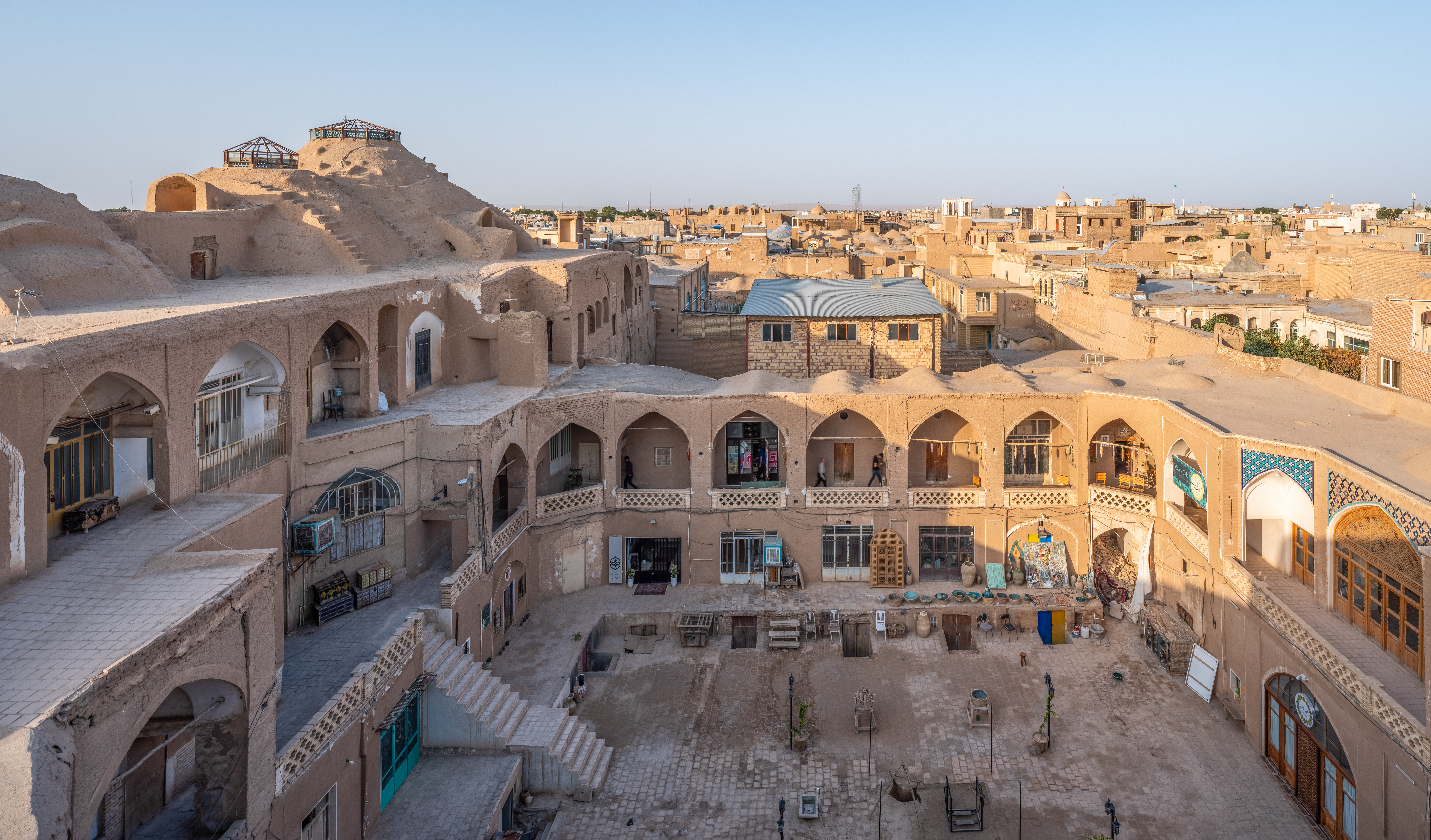 Bakhshi Carvansarai, in the historical Bazaar of Kashan, Iran